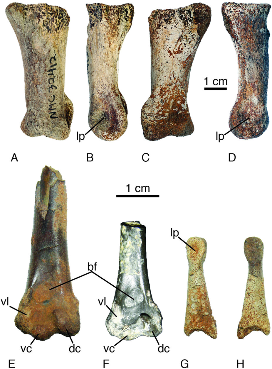 Bones of birds from the Margaret Formation, Ellesmere Island, Canada. A-D: the (probable) left proximal phalanx of digit IV from Gastornis (A dorsal, B lateral, C plantar and D medial view); E-F: distal humeri of Presbyornis (F is an example from the Wasatch Formation of Wyoming); G-H: indeterminate avian pedal phalanx (G right and H left surfaces). Abbreviations: bf, brachial fossa; dc, dorsal condyle; lp, collateral ligament pit; vc, ventral condyle; and vl, facet for the ventral collateral ligament on the ventral supracondylar tubercle.